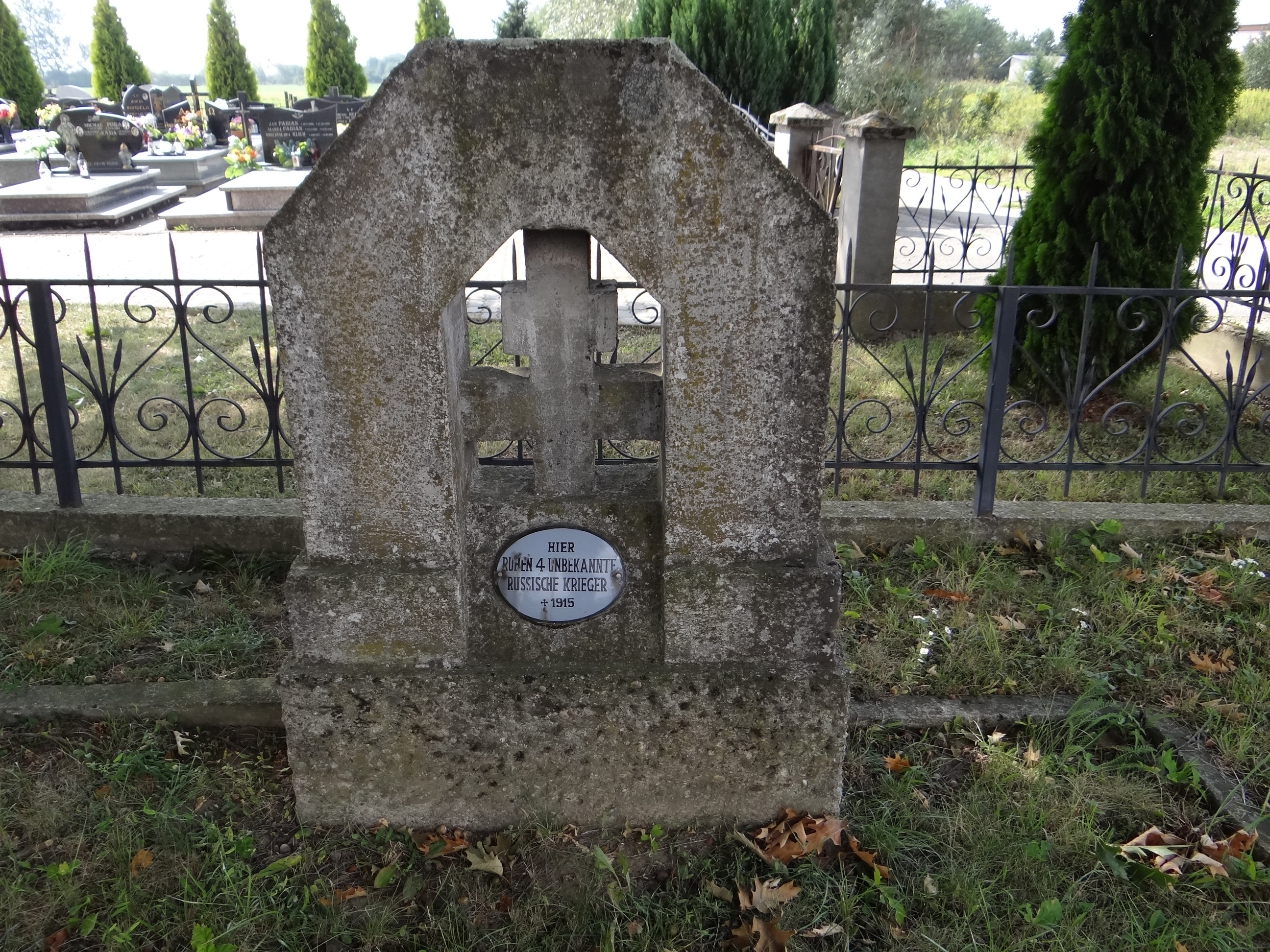 World War I Cemetery nr 211 in Siedlec